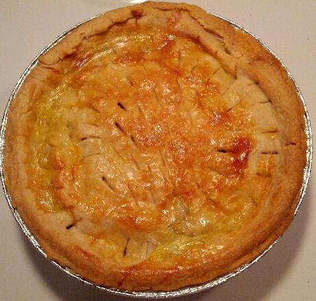 Tourtière Xmas dinner 2012